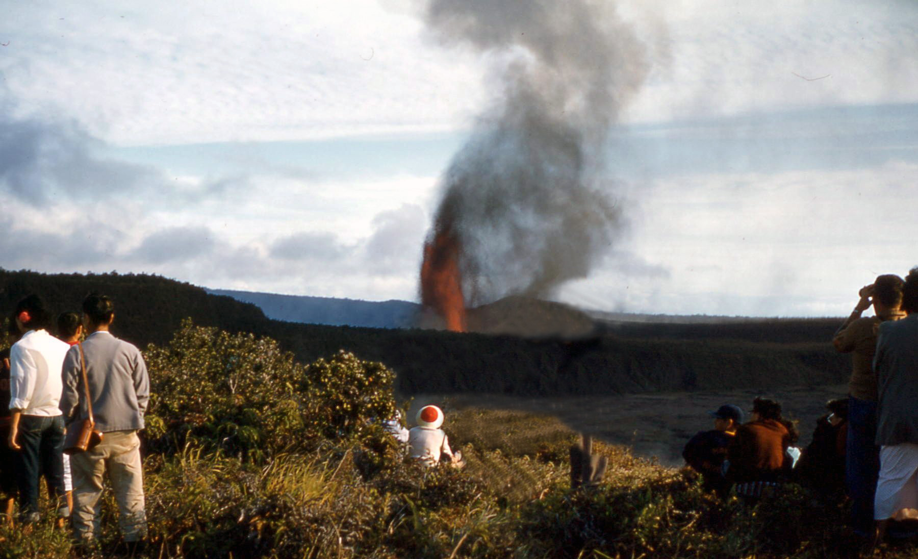 Kilauea Iki volcano erupting, big island of Hawaii